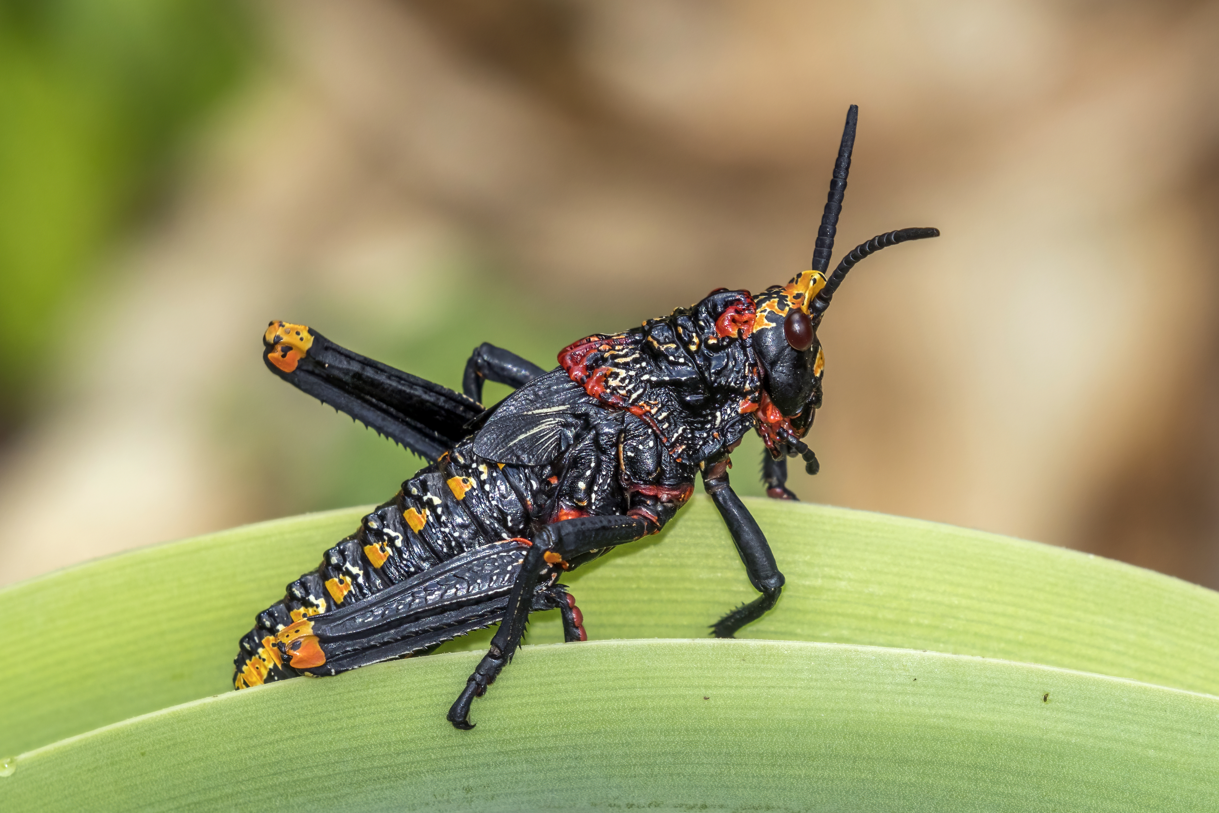 Koppie foam grasshopper (Dictyophorus spumans spumans) nymph, Walter Sisulu Botanical Gardens, Roodepoort, South Africa